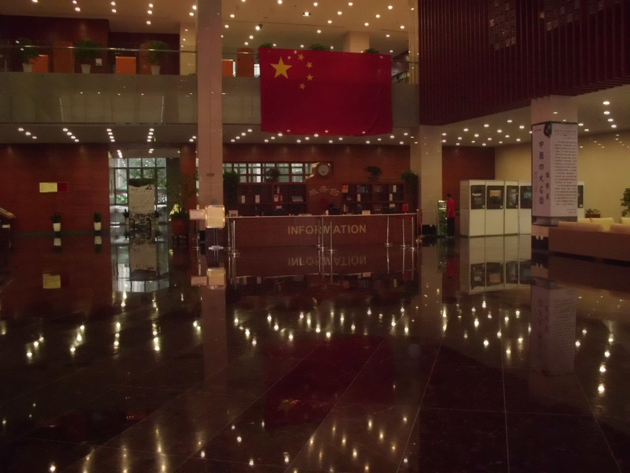 Hangzhou Library